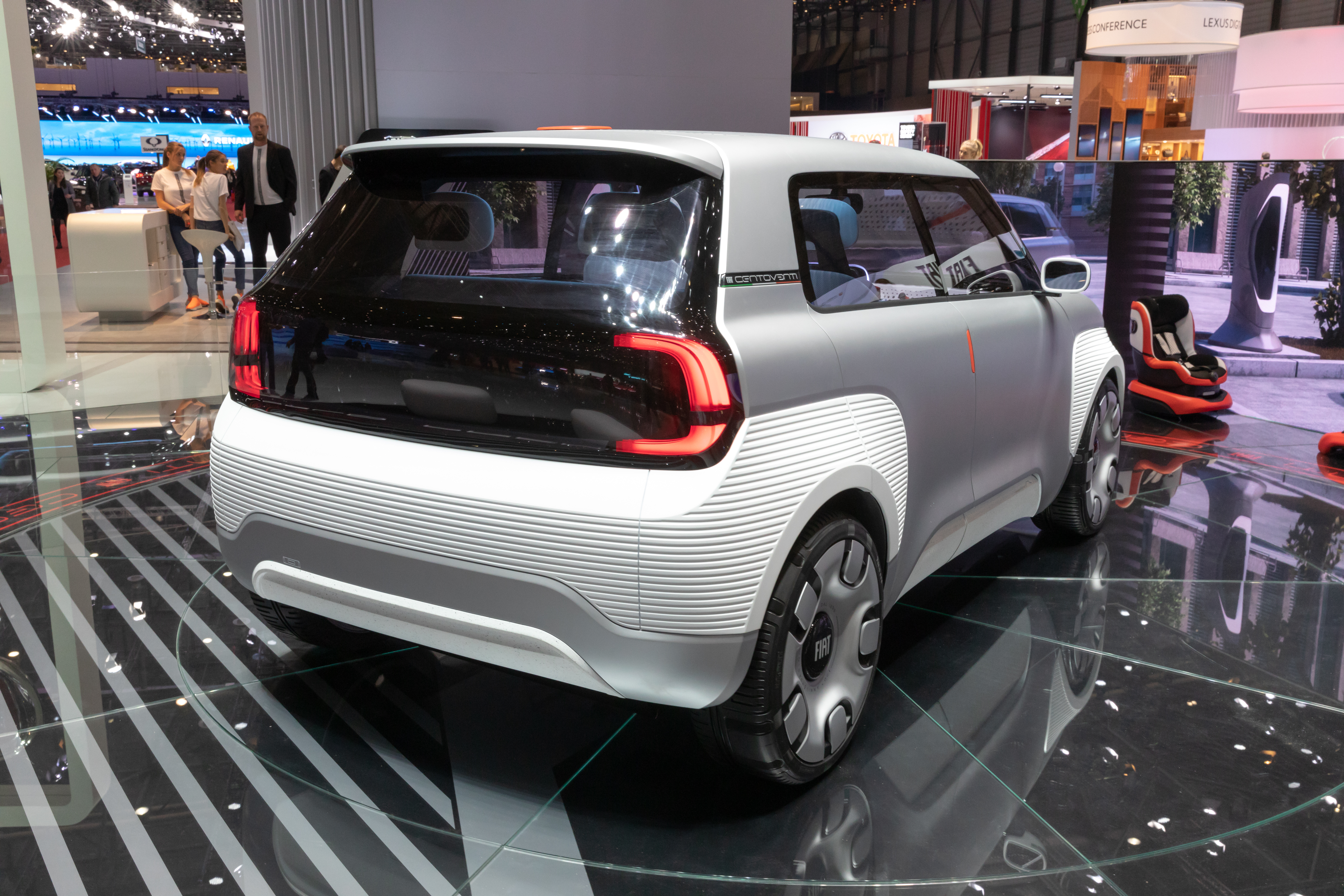 Fiat Centoventi Concept at Geneva International Motor Show 2019, Le Grand-Saconnex